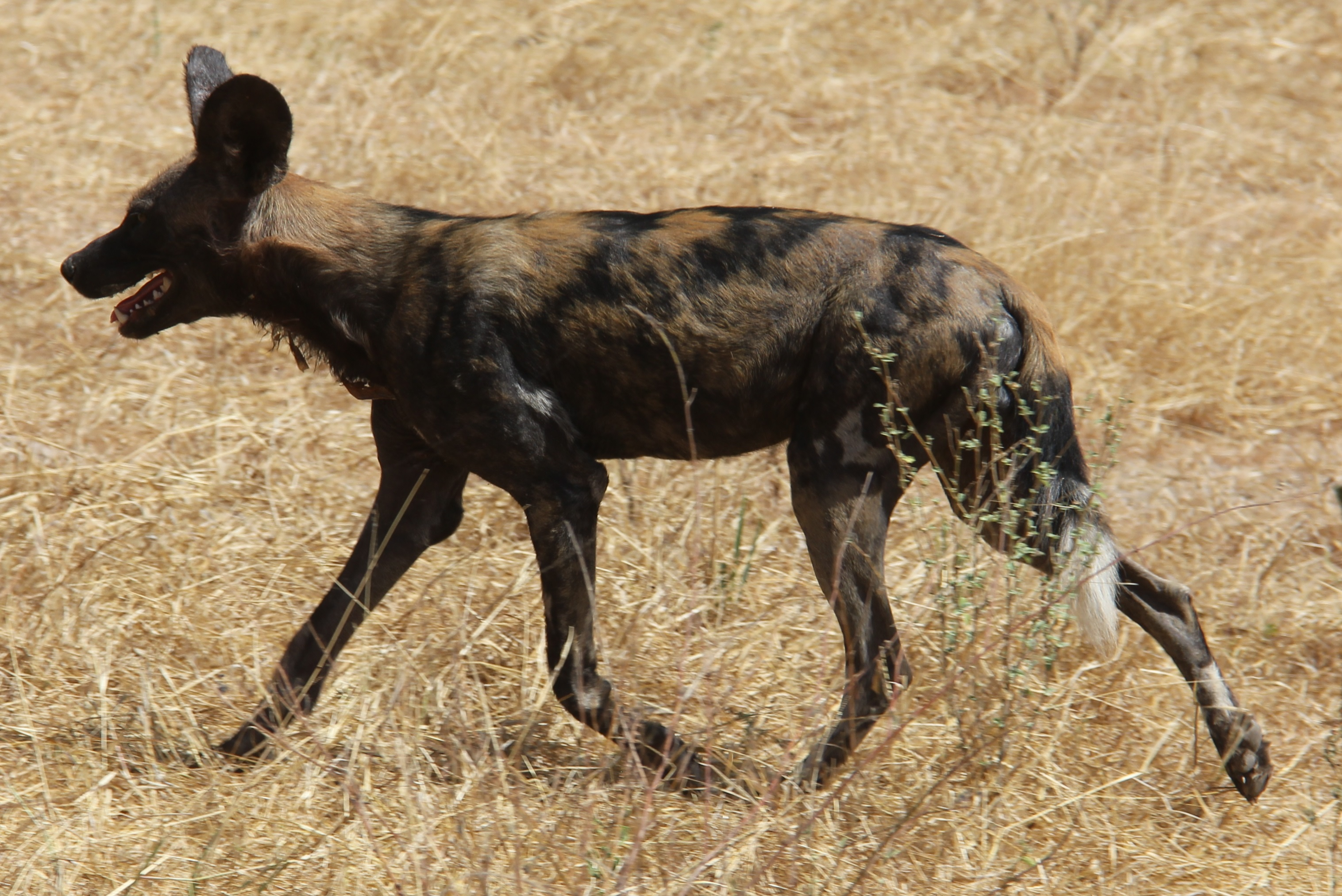 East African Wild Dog, Selous Game Reserve